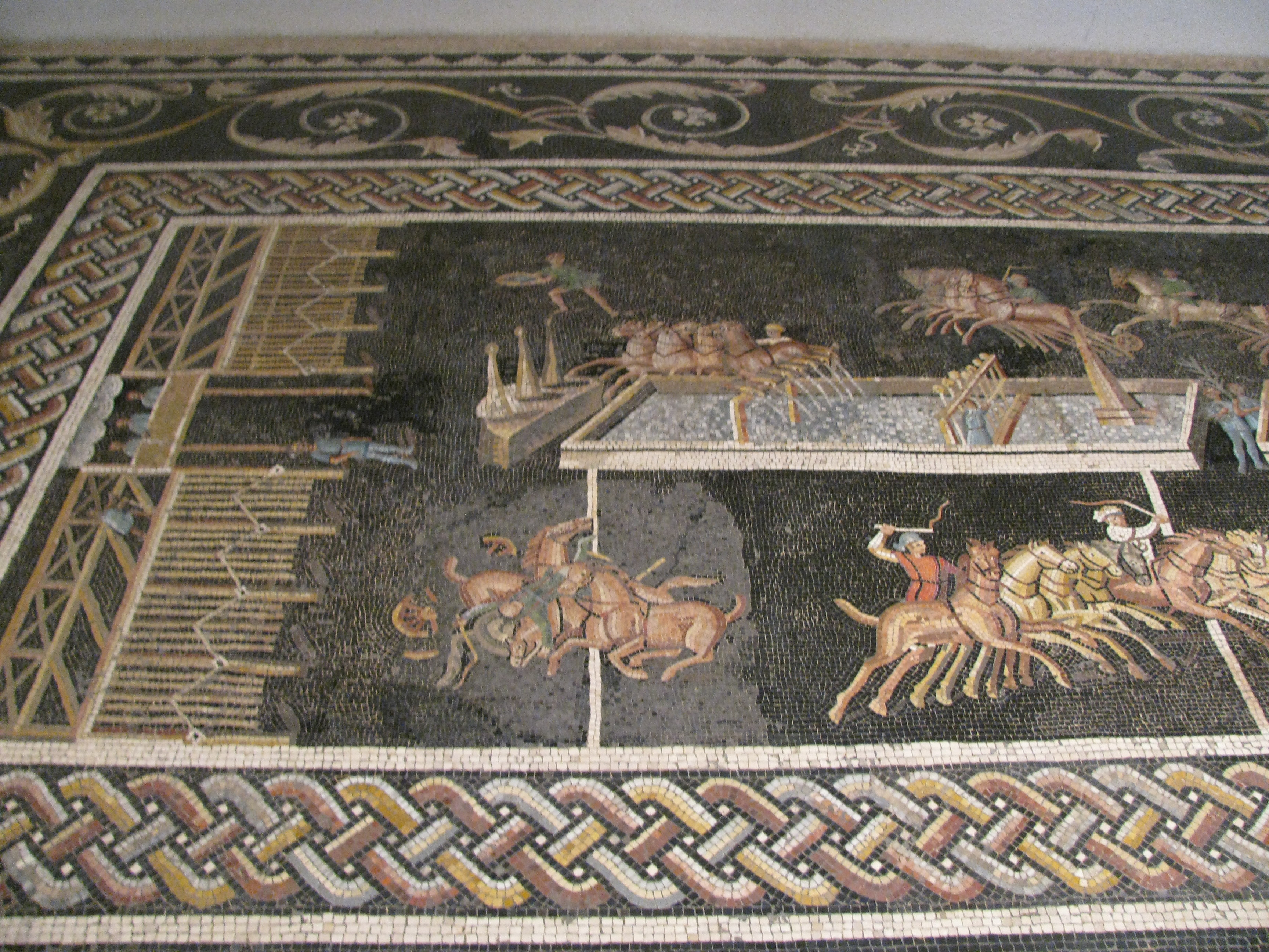 Circus race mosaic, left part - archeologic Museum of Lyon France